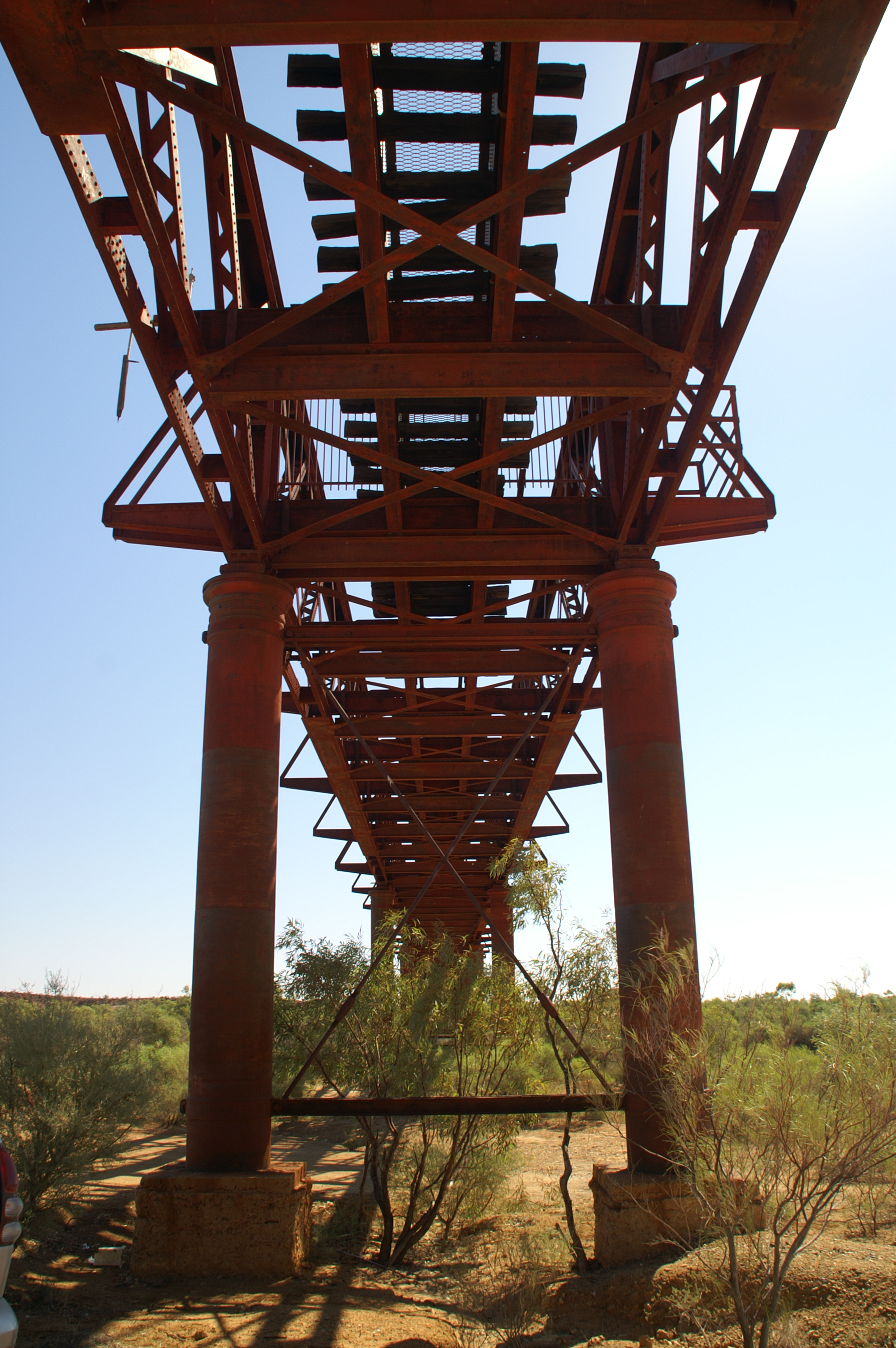 Old Algebuckina Ghan Railway bridge over the Neales River, just off the Oodnadatta Track